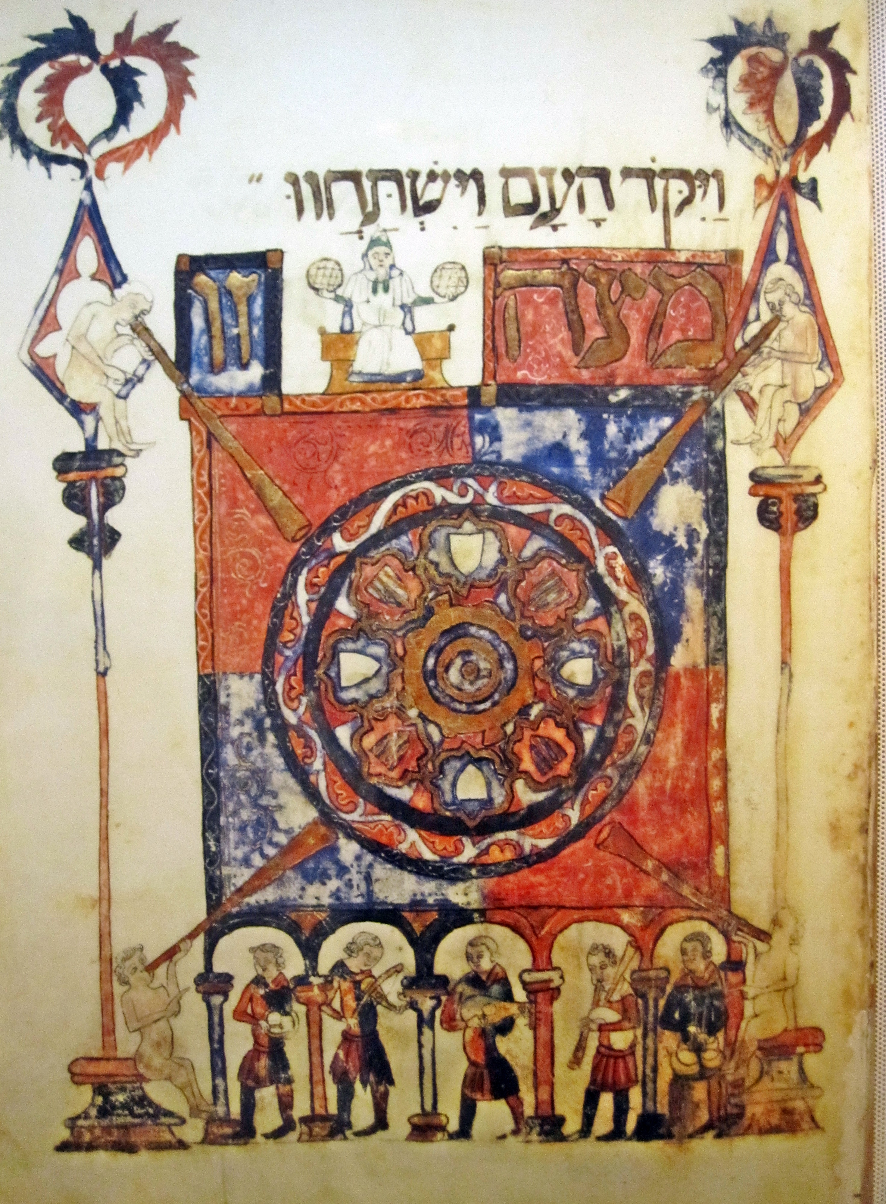 This is a photo of an exhibit at the Diaspora Museum, Tel Aviv - Beit Hatefutsot. The Note says: This Massah A Page from the Barcelona Haggadah Spain, 14th Century The British Library, London